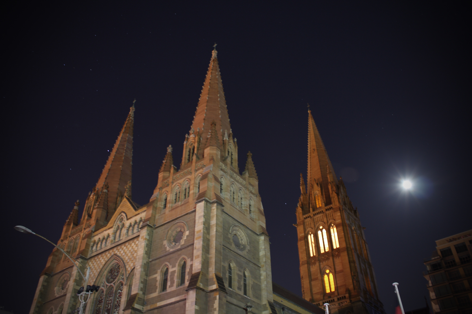 St Paul's Cathedral, Melbourne at a Full Moon Night